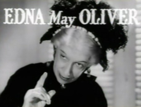 Cropped screenshot of Edna May Oliver from the trailer for the film Little Women.